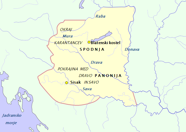 Lower Pannonia in IX. century AD: for northern borders of broadened regnum look at Inzko Valentin (1978): Zgodovina Slovencev do leta 1918. Mohorjeva založba, Celovec. Str. 34; Čepič Zdenko et al. (1979): Zgodovina Slovencev. Cankarjeva založba, Ljubljana 1979, str. 127 in 133; Peršič Janez et al. (1983): Stare kulture. Mladinska knjiga, Ljubljana, str. 144; for southern country look at Annales Fuldenses.